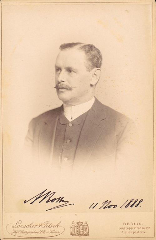 Arnold Roth (1836 - 1904), Swiss politician and diplomat